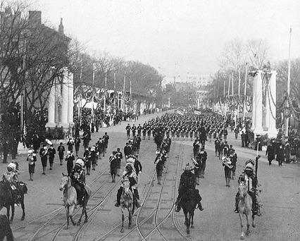 Buckskin Charlie (Ute), American Horse (Oglala Sioux), Little Plume (Piegan Blackfeet), Geronimo (Chiricahua Apache), and Hollow Horn Bear (Brule Sioux), passing in review before a newly inaugurated President Theodore Roosevelt, March 4, 1905. Courtesy of the Library of Congress, #LC-USZ62-560009.